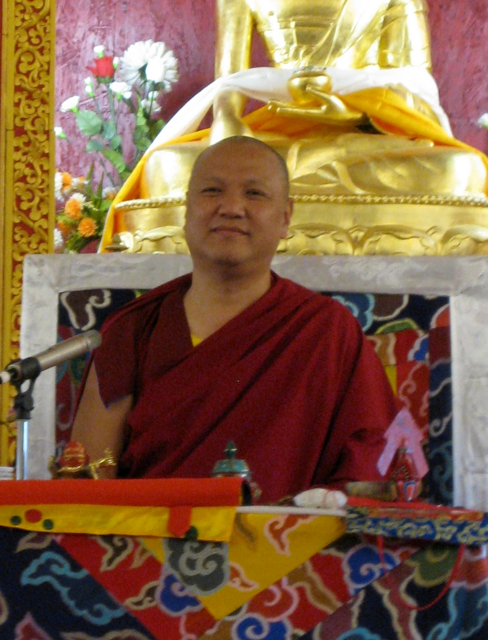 10th Sangye Nyengpa Rinpoche